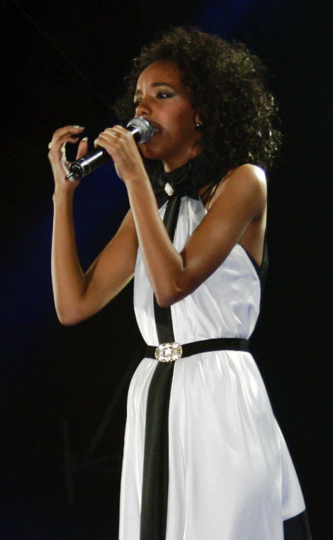 Hagit Yaso, Israeli winner of "Kokhav Nolad" 9